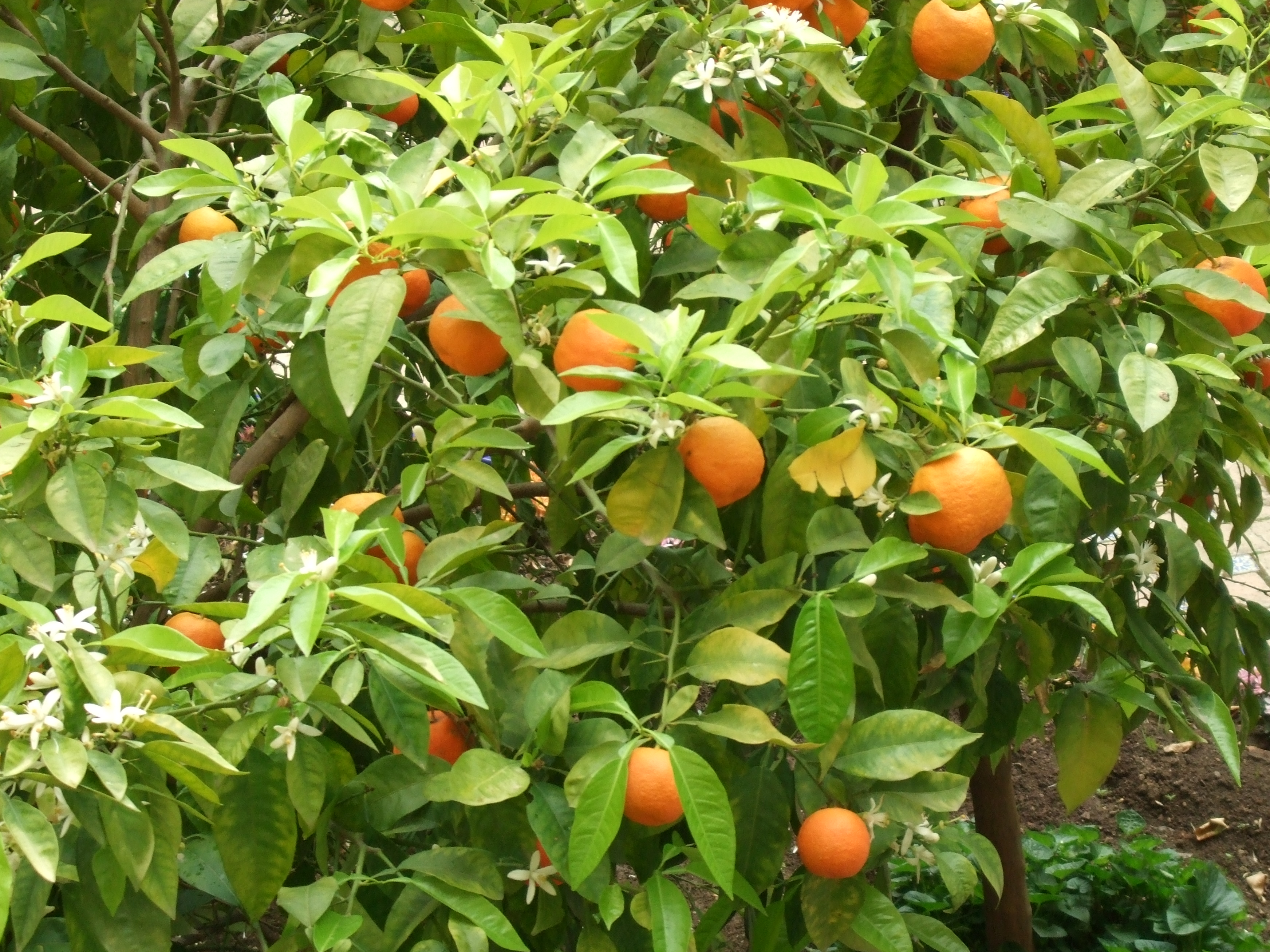 Bitter oranges (C. aurantium) in the Jardines del Alcázar de Sevilla, Spain